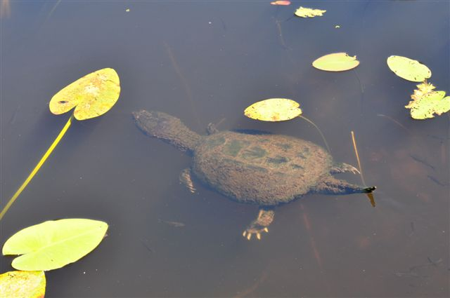 Snapping turtle at Trustom Pond National Wildlife Refuge. Credit: Tom Tetzner